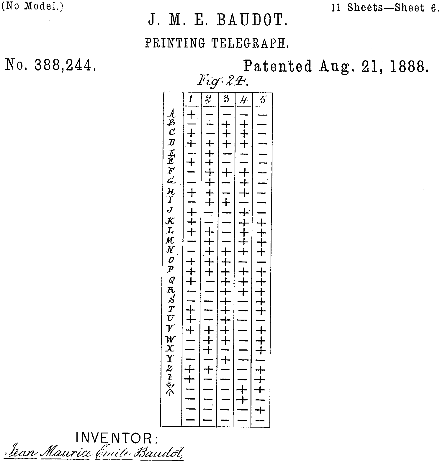 Page 6 of 11 from patent US 388244 A (1888) excerpt: Patented in France January 6, 1882. No. 146,716 To all whom it may concern: Be it known that I, JEAN MAURICE EMILE BAUDOT, a citizen of the French Republic, and a resident of Paris, France, have invented certain new and useful Improvements in Electric Telegraph Printing Apparatus, of which the following is a specification. ... Fig. 24 is a chart showing the various combinations of the manipulator corresponding to the different letters or characters to be printed. ... To clearly perceive the action of the system, let us suppose that the operator has pressed the keys 2, 4, and 5 in order to transmit the signals, the combination of which should form the letter M, as shown by the chart, Fig. 24.